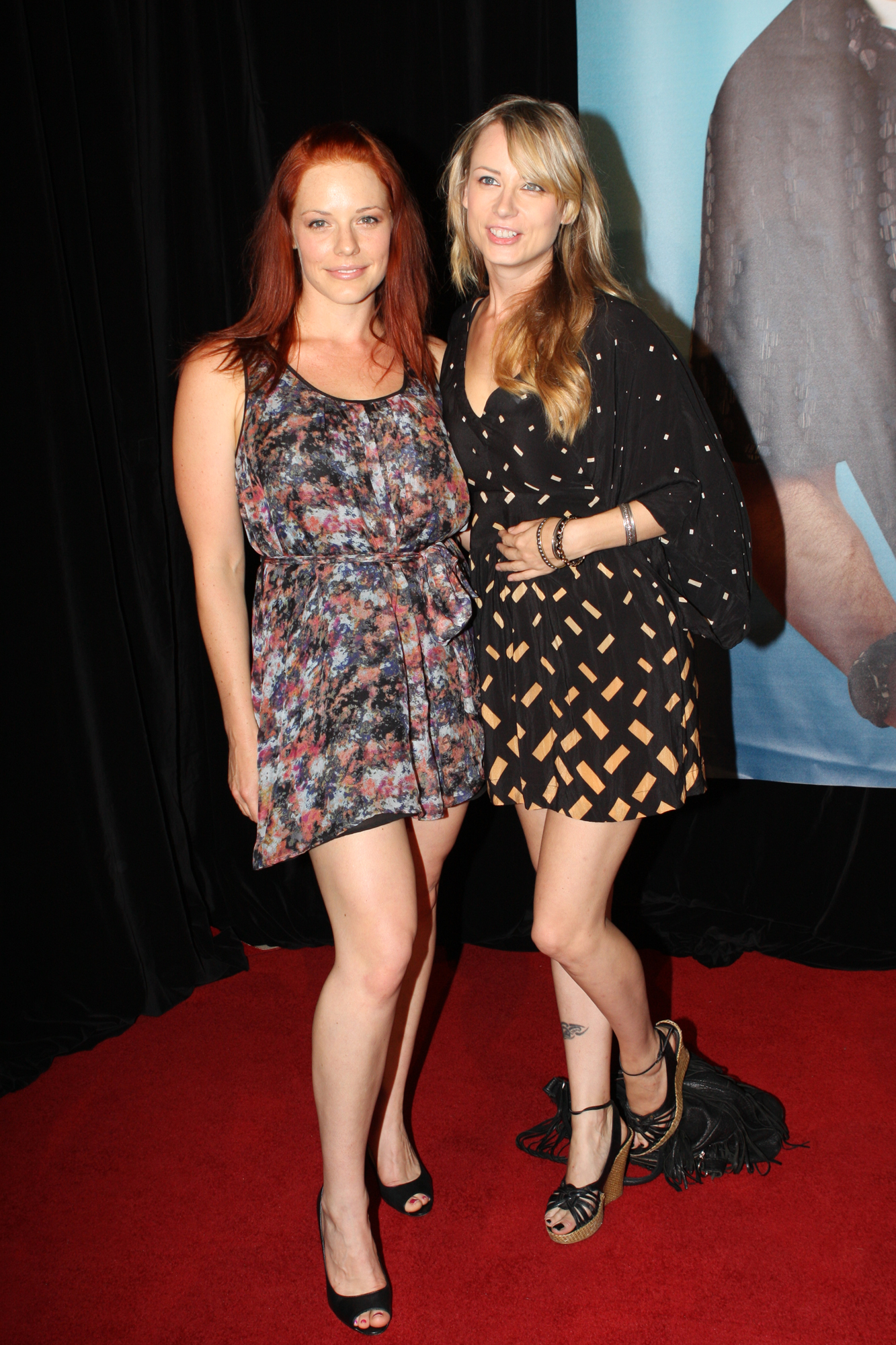 Katherine Hicks (left) with ? at Hall Pass premiere in Sydney, February 2011